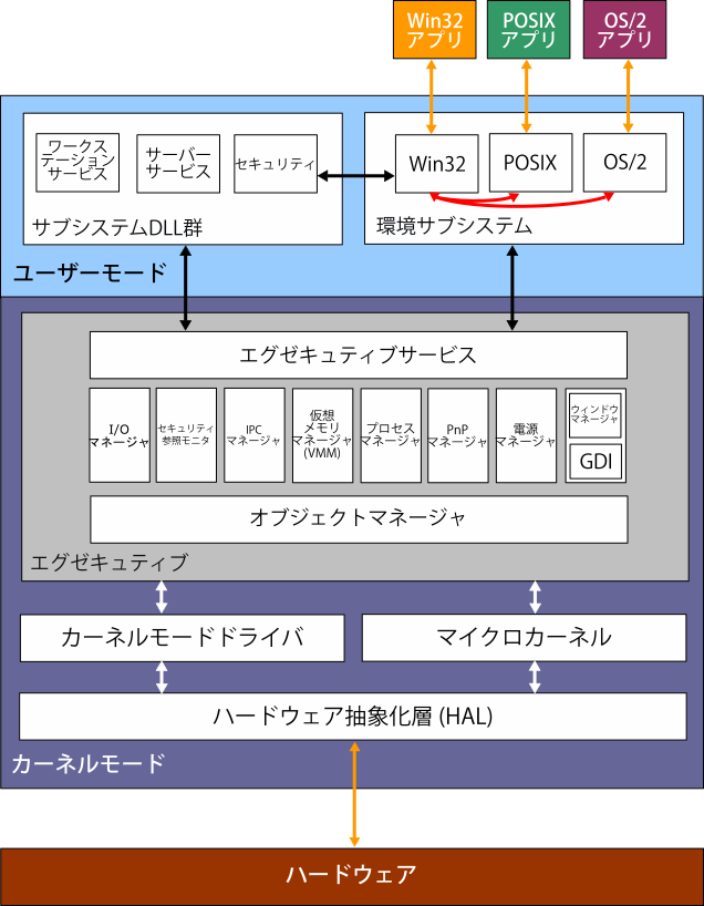 Block diagram of the Windows 2000 architecture. Translated in Japanese, based on File:Windows_2000_architecture.svg